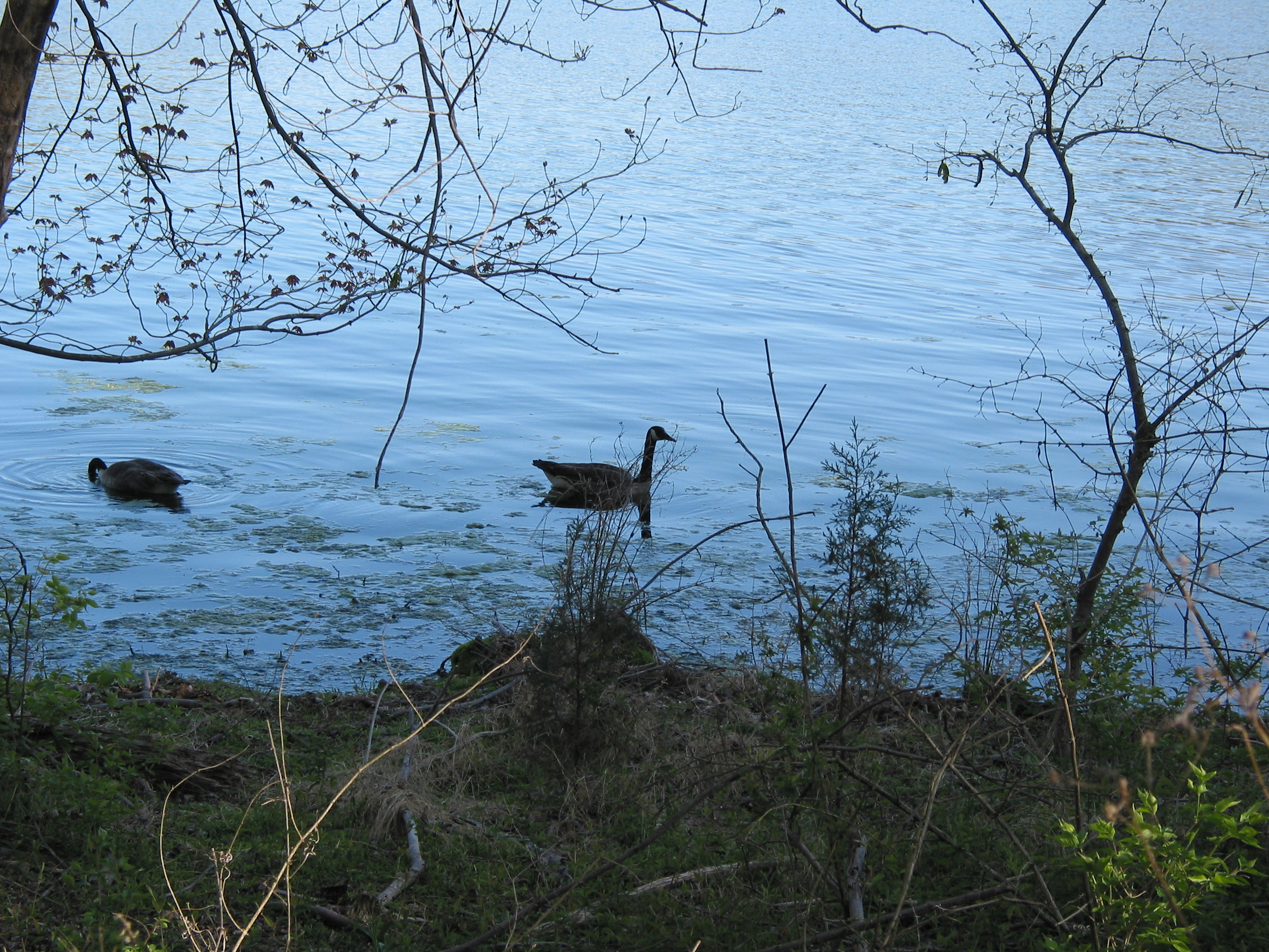 Picture of Radnor Lake with geese